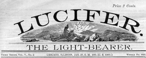 Lucifer, The Light-Bearer (1883-1907)